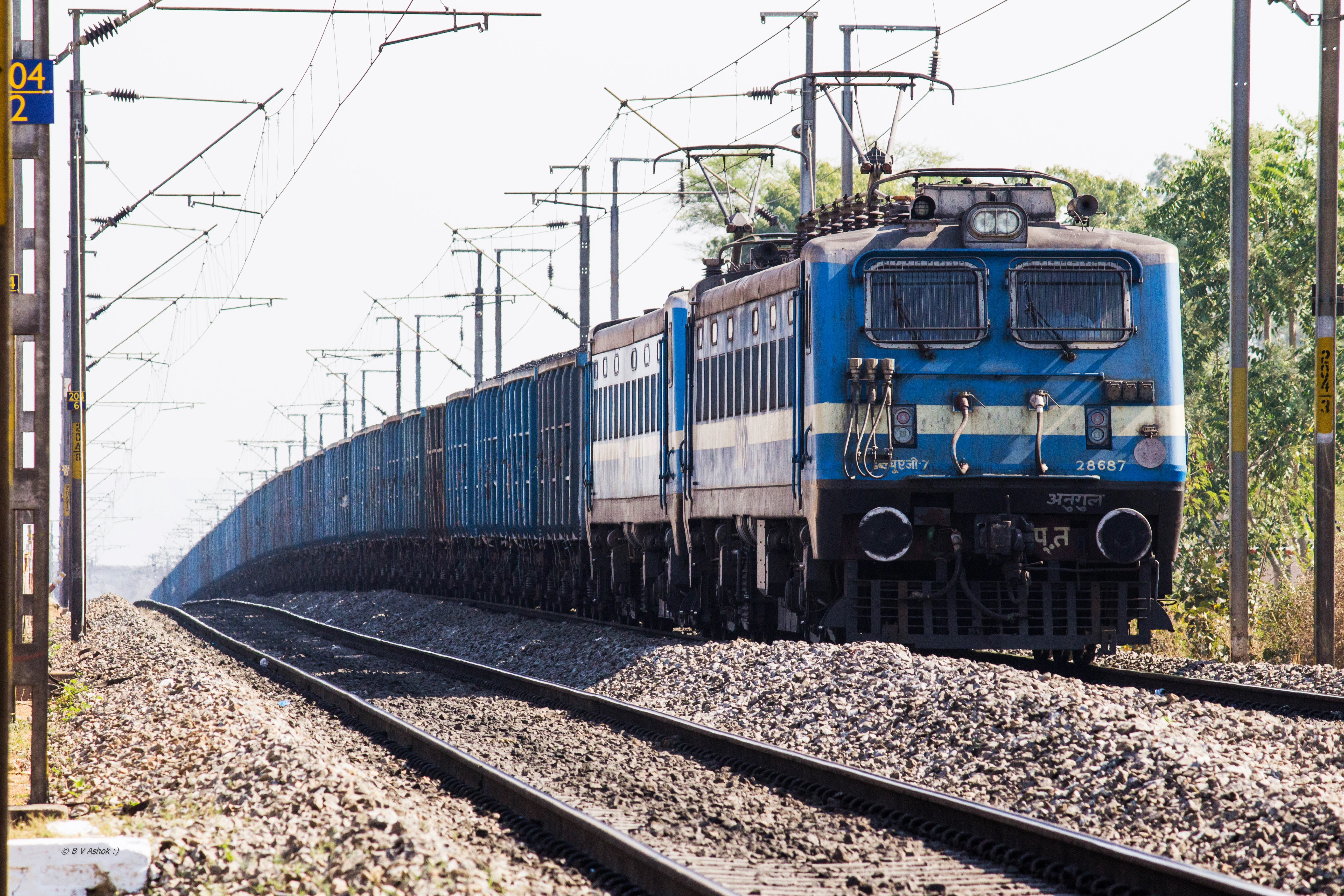 ANGL WAG-7 twins led by 28687 towing a loaded BOXN rake towards Moulali...